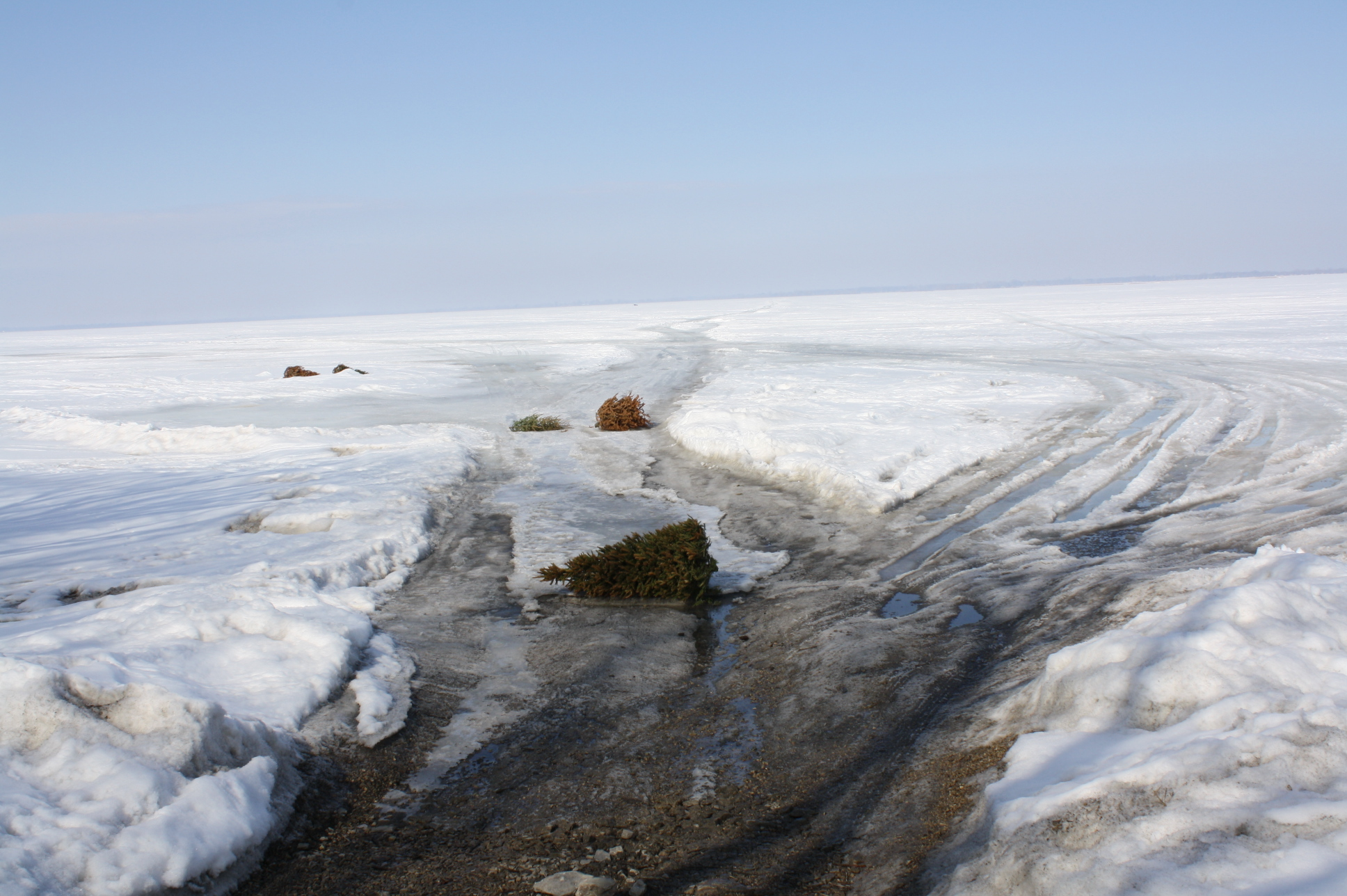 Evergreen trees marking thin ice on an ice road on Lake Poygan at the west side of Winnebago County, Wisconsin.